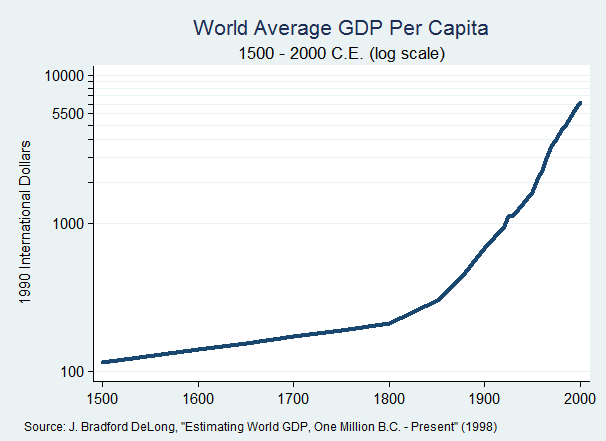 World average GDP per capita 1500 to 2000, log scale. Data extracted from J. Bradford DeLong's *Estimates of World GDP, One Million B.C. – Present